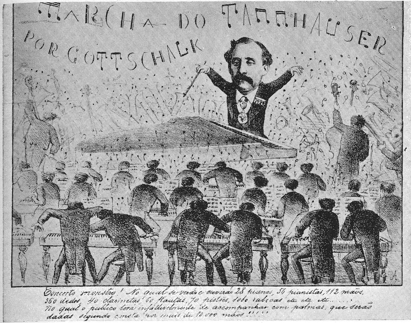 Caricature illustration of "monster concert" by Louis M. Gottschalk at Fluminese Theater, Rio de Janeiro, Brasil, 5 October 1869